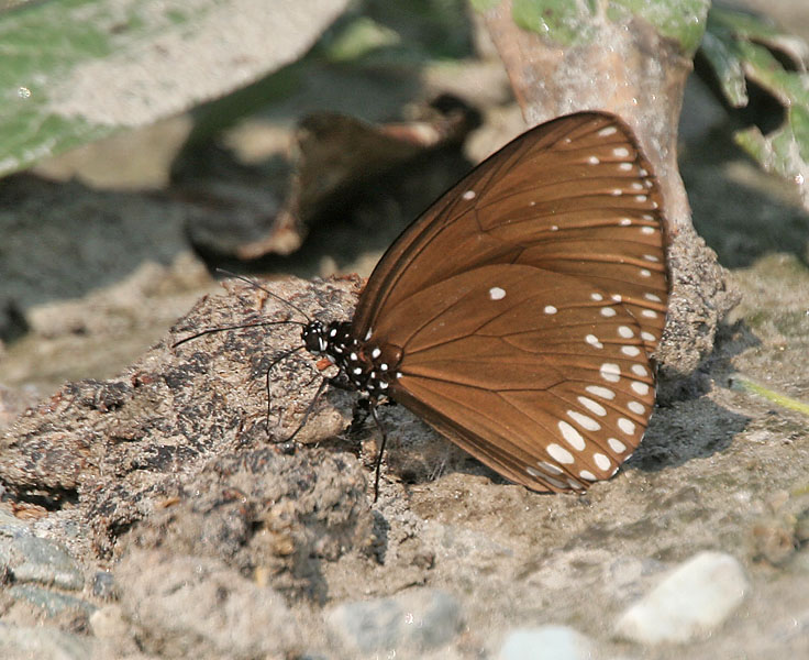 Brown King Crow Euploea klugii at Jayanti in Buxa Tiger Reserve in Jalpaiguri district of West Bengal, India.